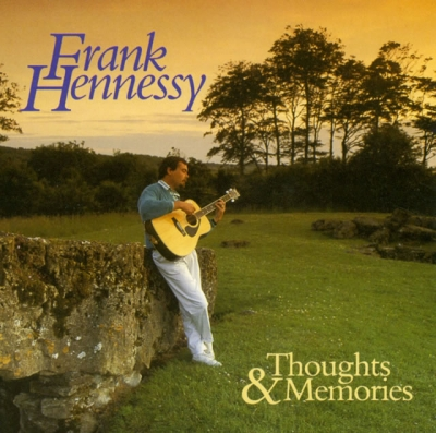 Artwork for the Album Thoughts & Memories by Frank Hennessy